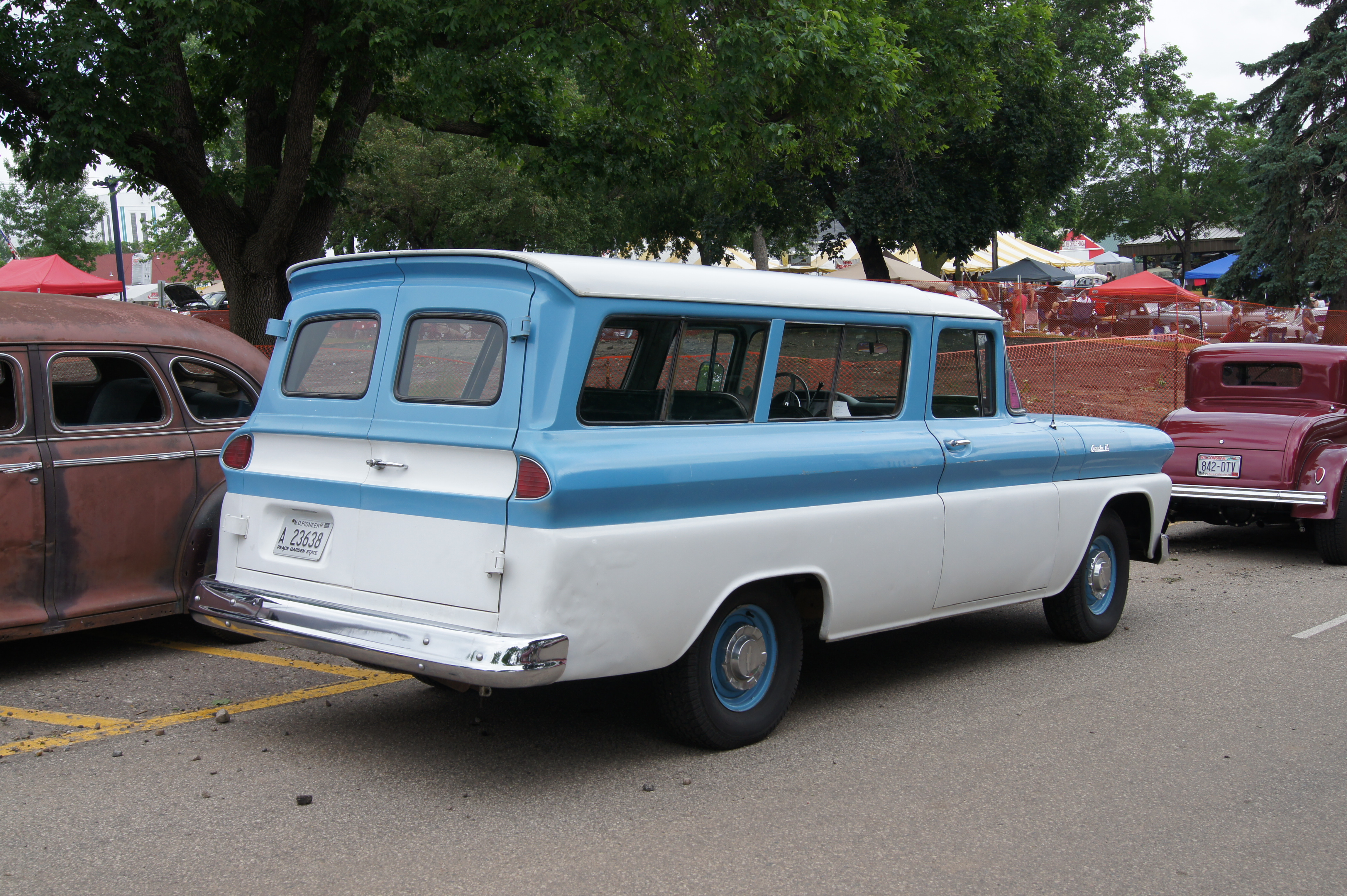 MSRA “BACK TO THE 50′s” 40th ANNIVERSARY June 21-23, 2013 State Fairgrounds St. Paul Minnesota More Car Pictures